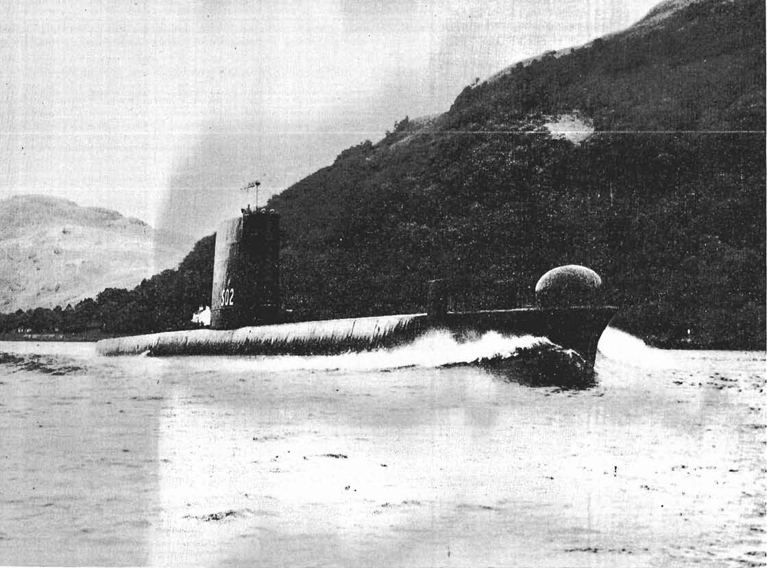 The HMS Rorqual (S02)